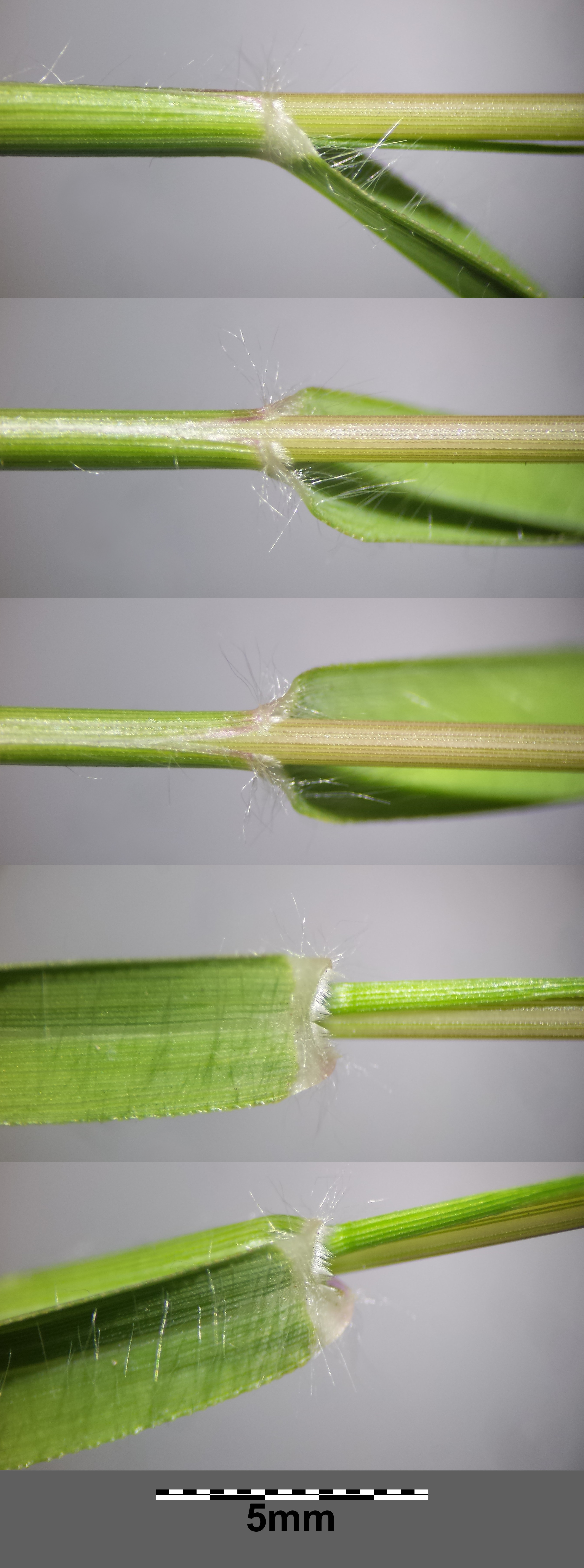 Stem with leaf, leaf sheath and ligule Taxonym: Eragrostis minor ss Fischer et al. EfÖLS 2008 ISBN 978-3-85474-187-9 Location: Leopoldau, Vienna-Floridsdorf - ca. 160 m a.s.l. Habitat: gap in road surface